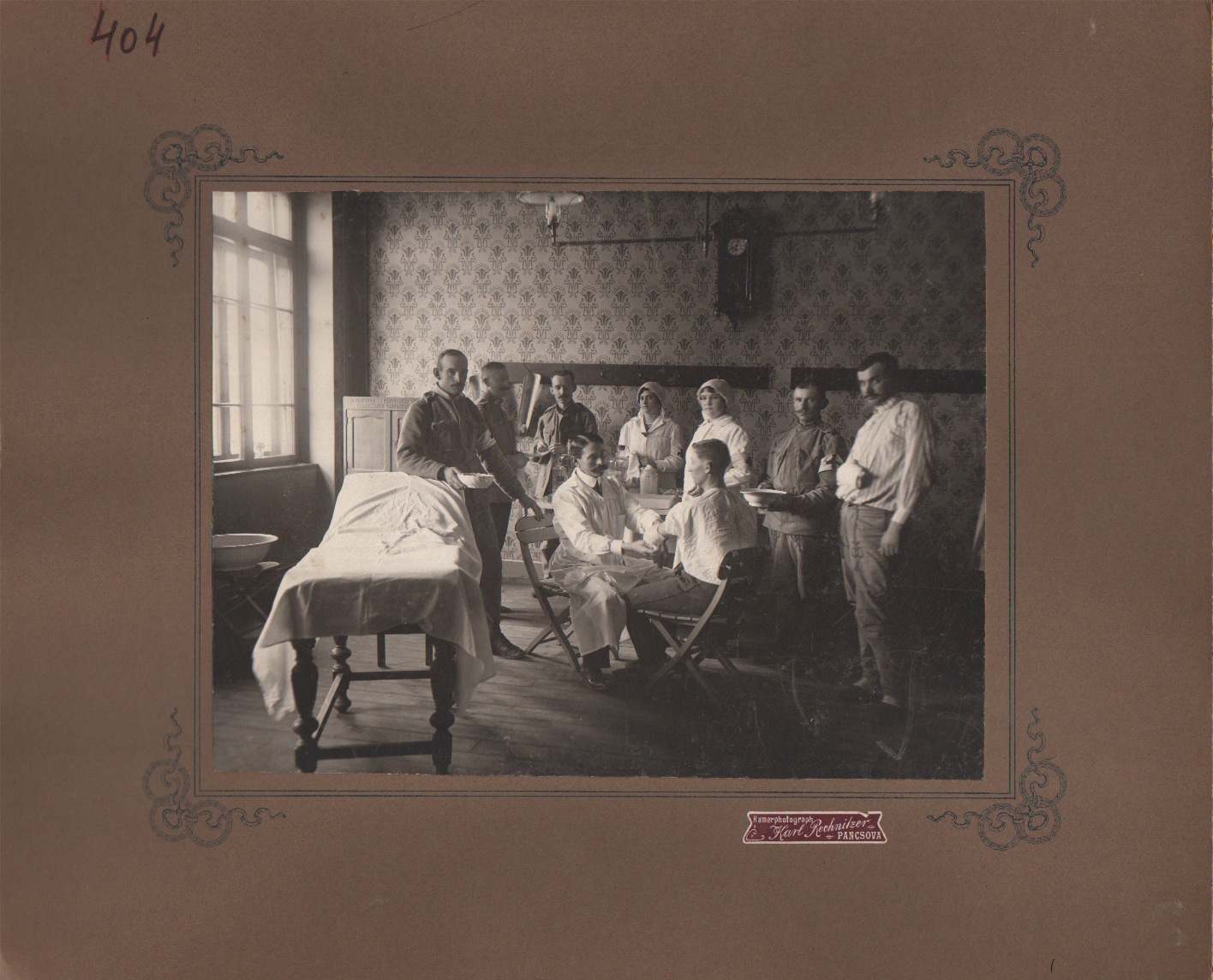 A hospital room in a military hospital in the building of the Women's Civil School in Pančevo.